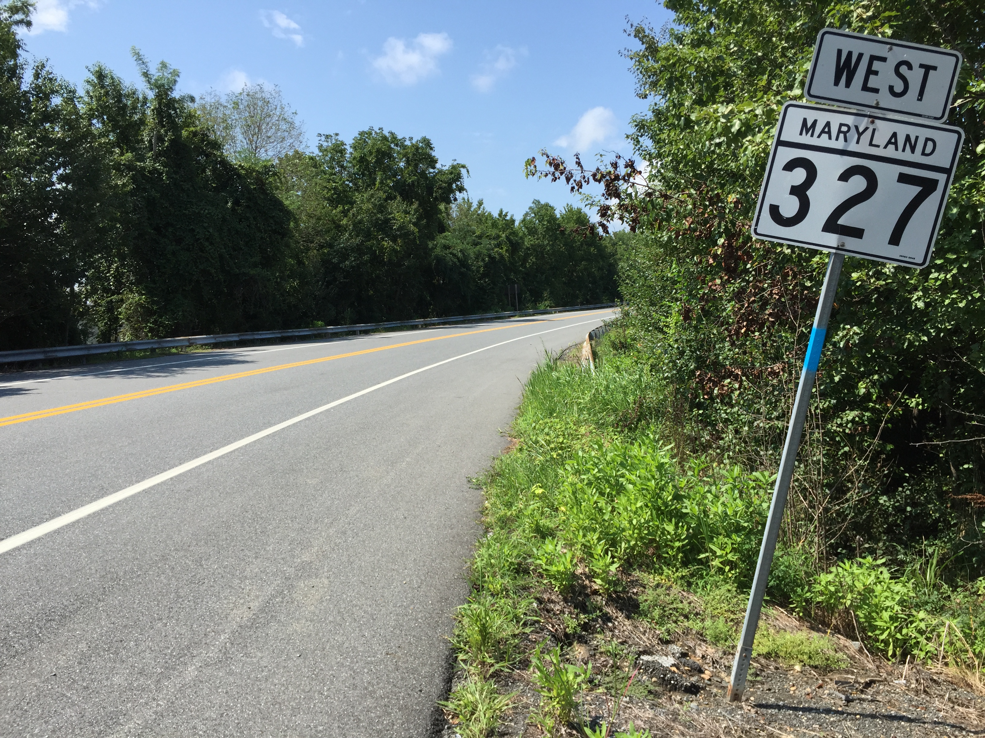 View west along Maryland State Route 327 (Ikea Road) at Marion Tapp Parkway in Perryville, Cecil County, Maryland